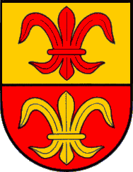 Coat of Arms of Cramme